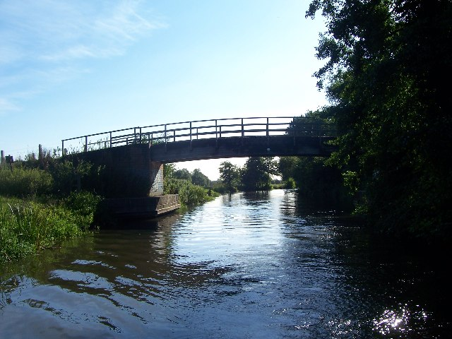 Hissey's bridge, bridge 17 over Kennet & Avon canal. A modern replacement??